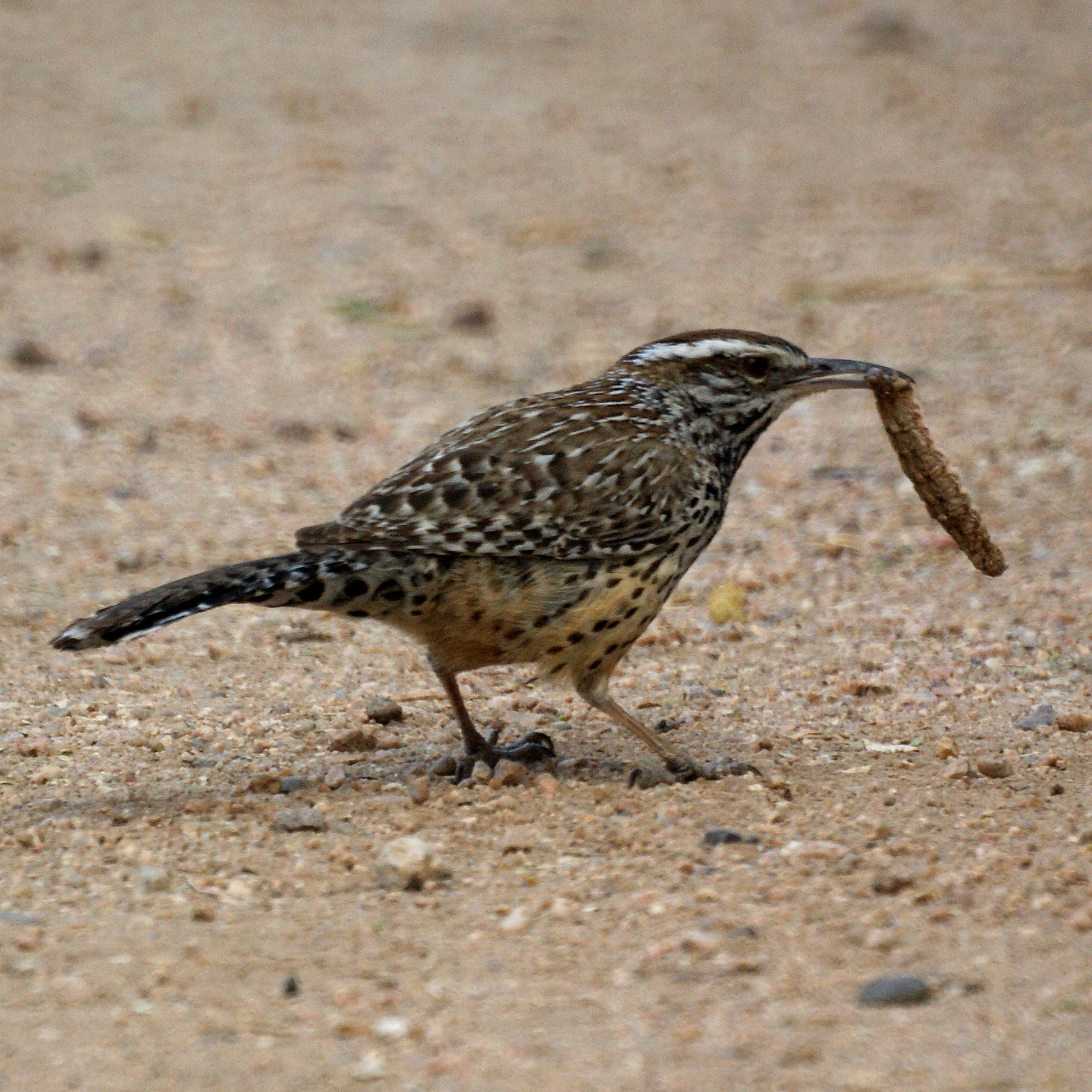 A Cactus Wren in Tucson, Arizona, USA.